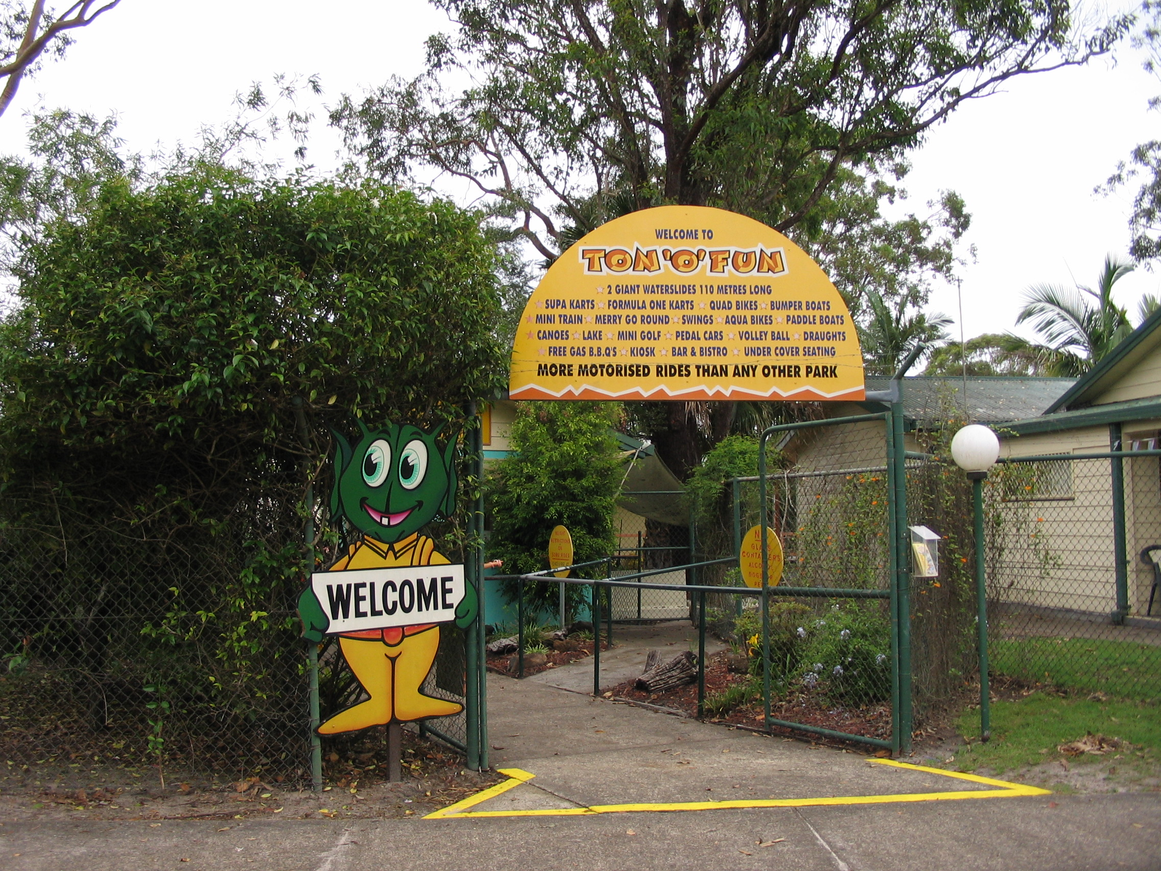 The Ton-O-Fun Main Entrance